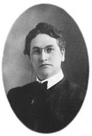 Caption: Miss Eleanor A. Tobie Principal, Chaddock Boys' School